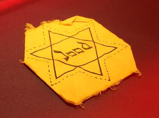 An exhibit of the Anne Frank Zentrum in Berlin, Germany.